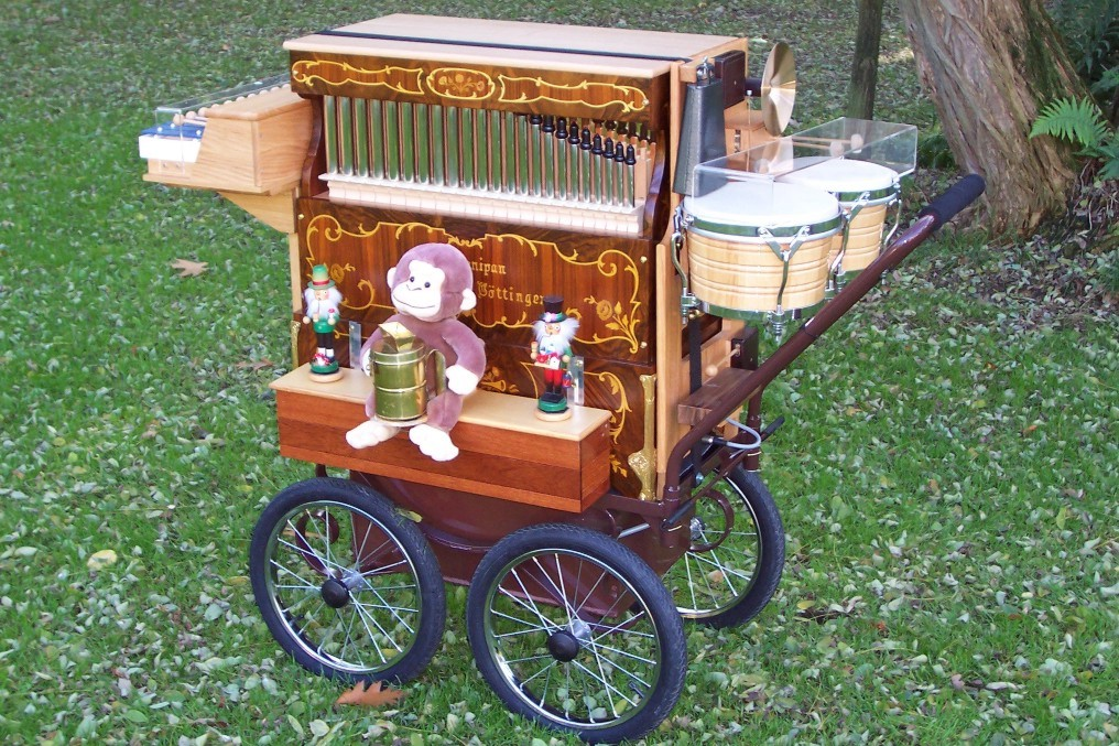 Replica of old Berlin Leierkasten "De Koning", replicated by Orgelbaumeister Hofbauer GmbH, Göttingen, Germany. “Replicas of old Berlin Leierkasten, as these little organ called in Germany, be made ​​by the other Orgelbaumeister Hofbauer from Göttingen (Ger). On this page one sees an image of a 37-key Hofbauer-hand barrel organ, complete with xylophone and percussion.” —English translation of Draaiorgel#Soorten draaiorgels